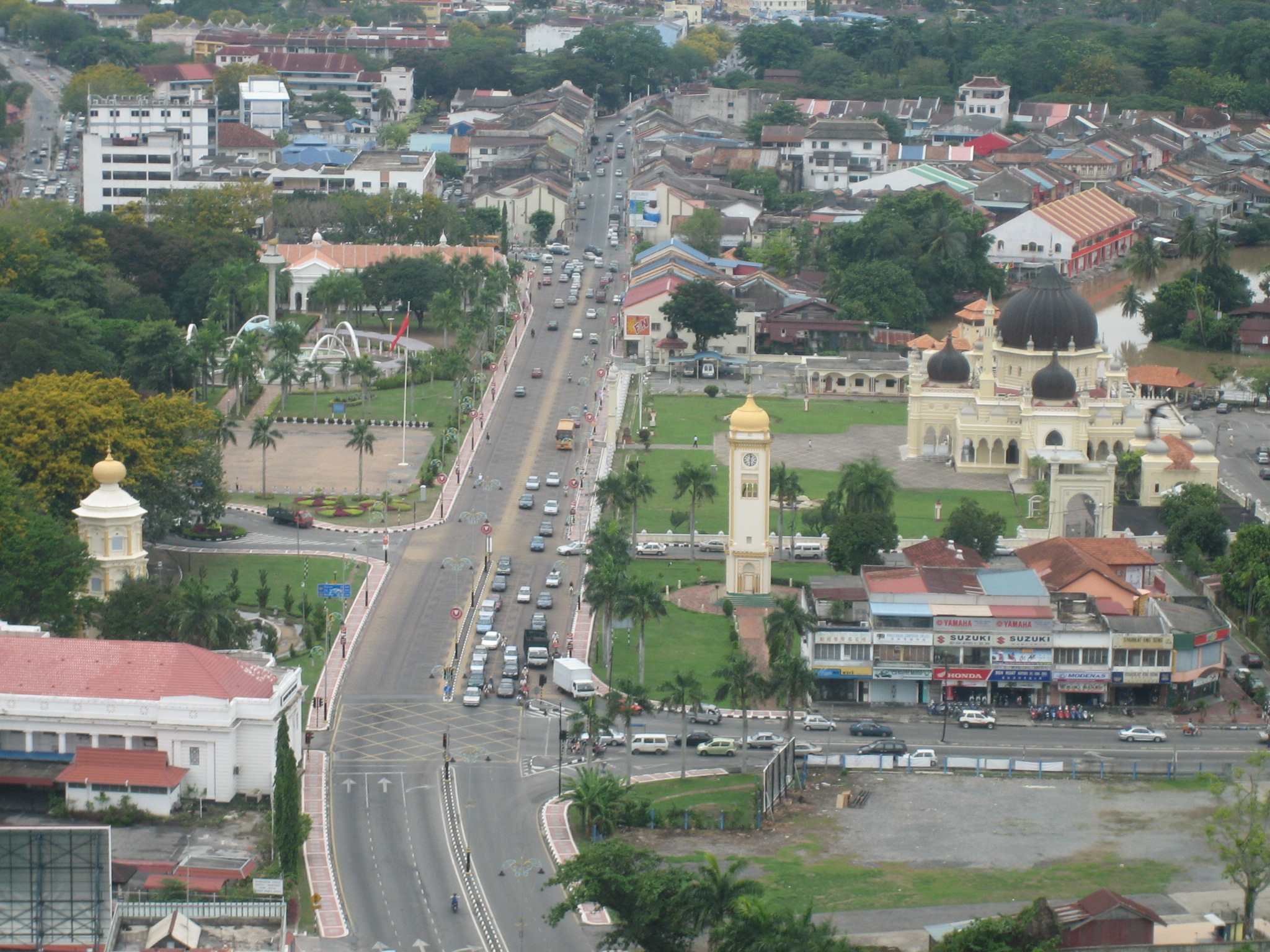 City and Masjid Zahir Mosque view from Alor Setar Tower